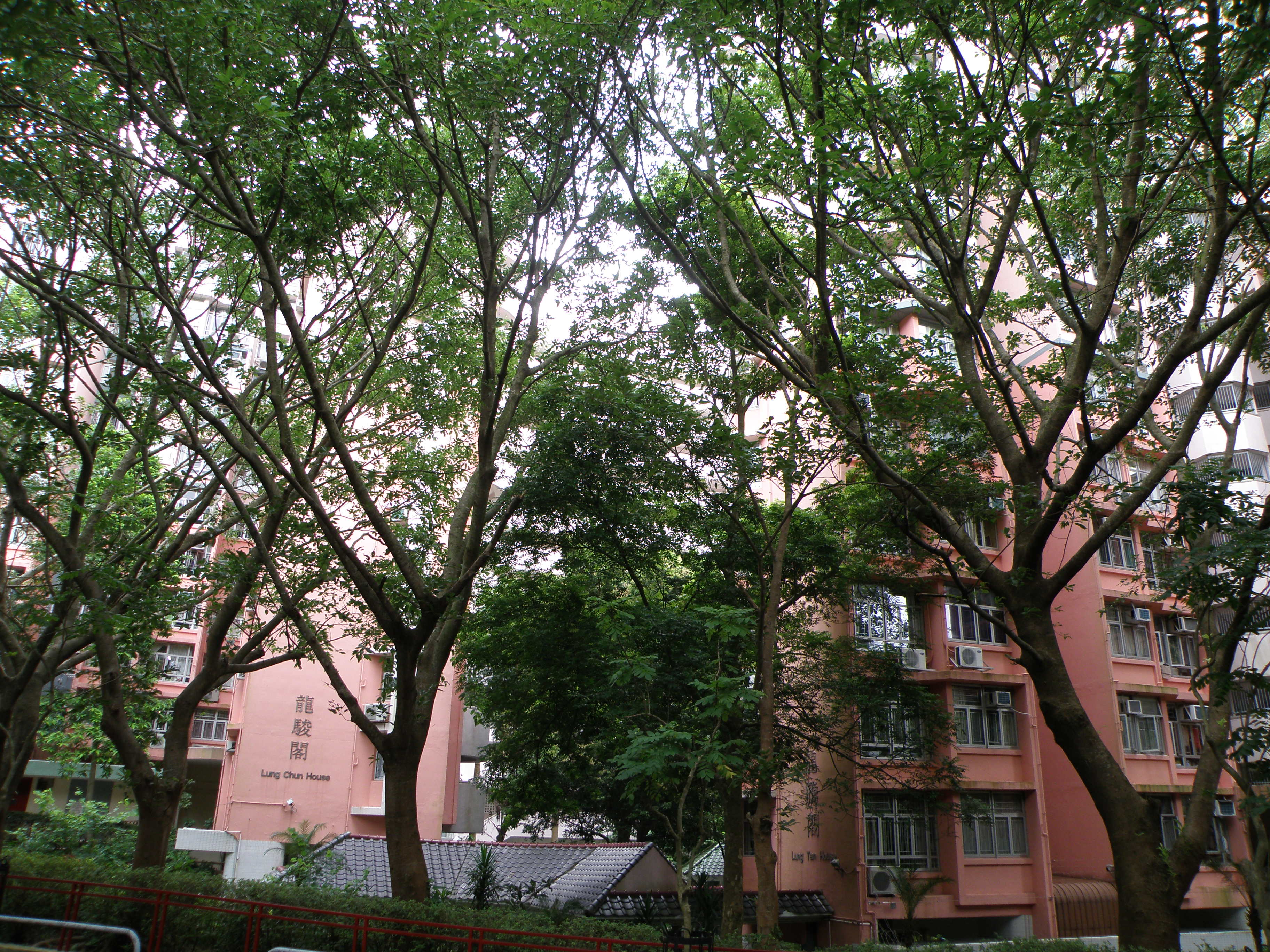 Lung Yan Court, a Home Ownership Scheme housing in Stanley, Hong Kong.